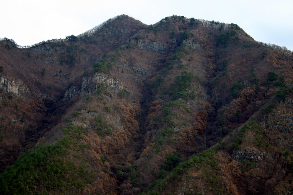 A scenery of Gasong Village (Andong), Andong City, Gyeongsangbuk-do, South Korea in autumn, 2006.